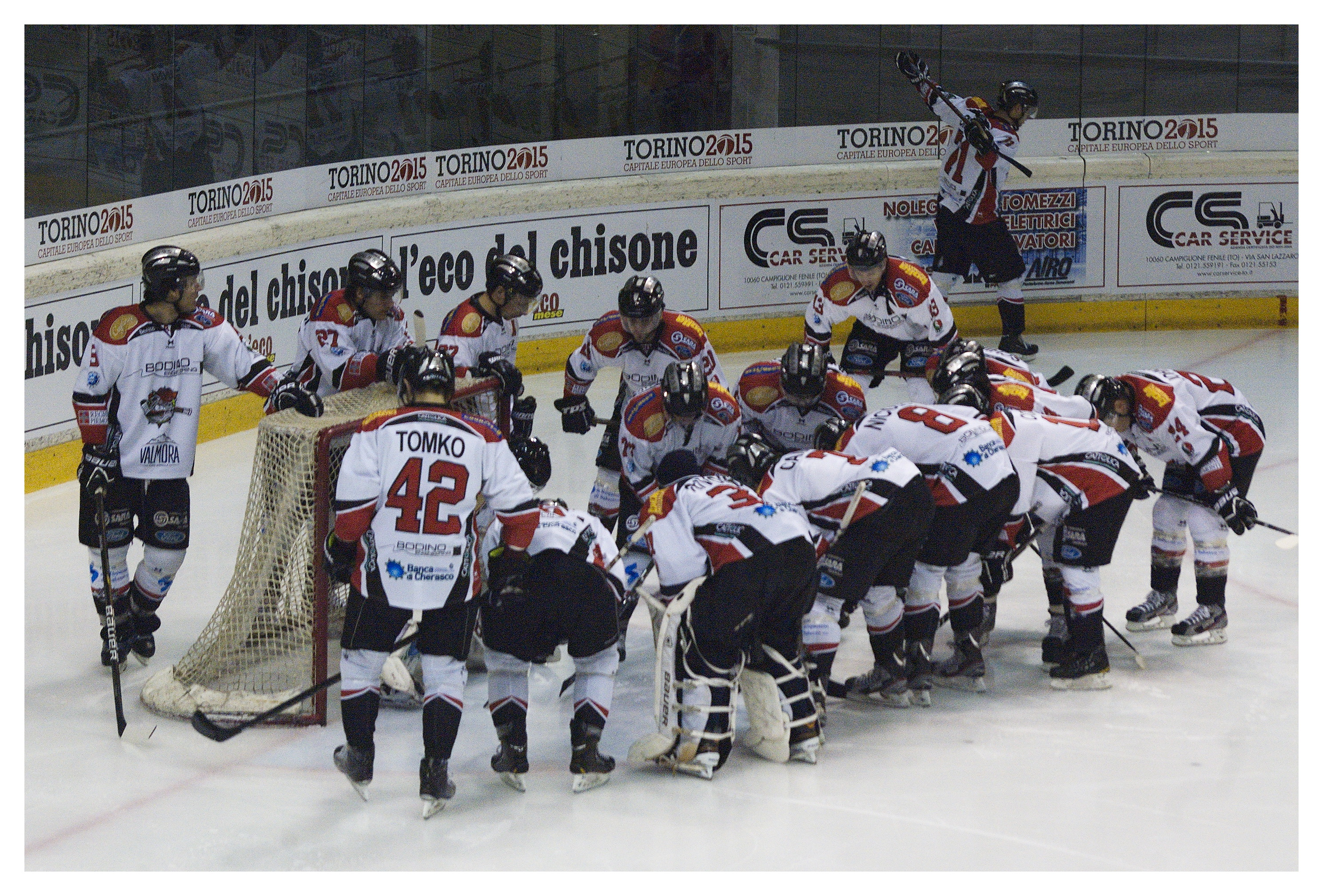 2012-2013 Coppa Italia semi-final between HC Valpellice and HC Val Pusteria played in Torino on 12 January 2013